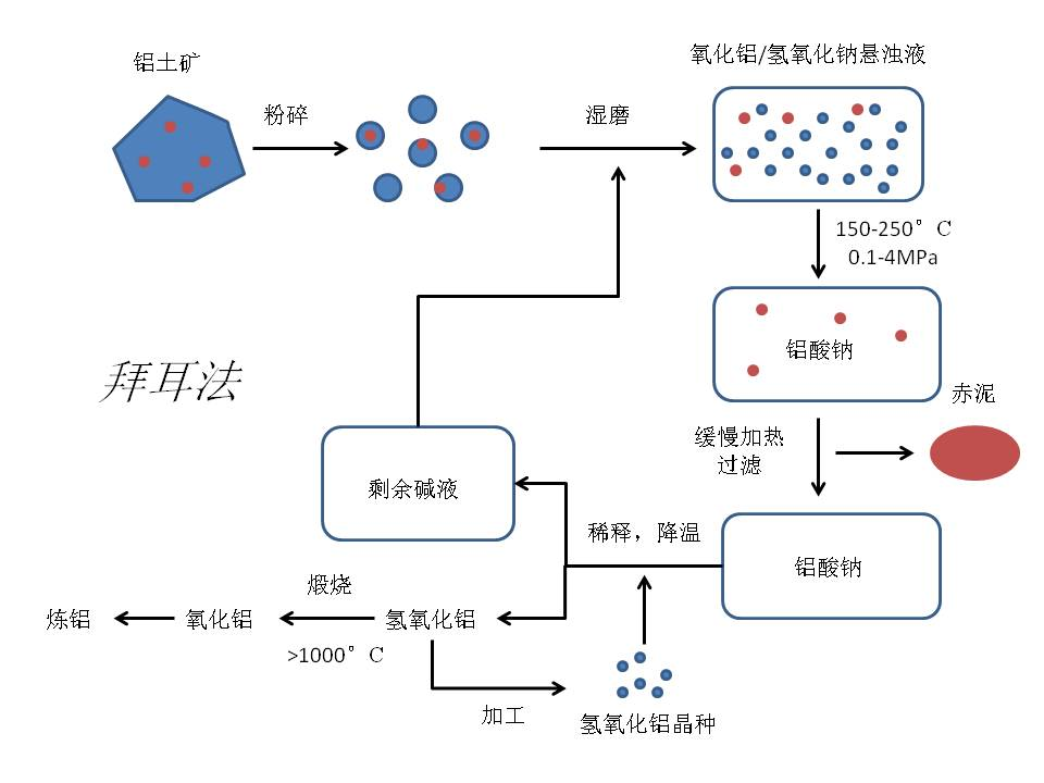 simple plot for bayer process